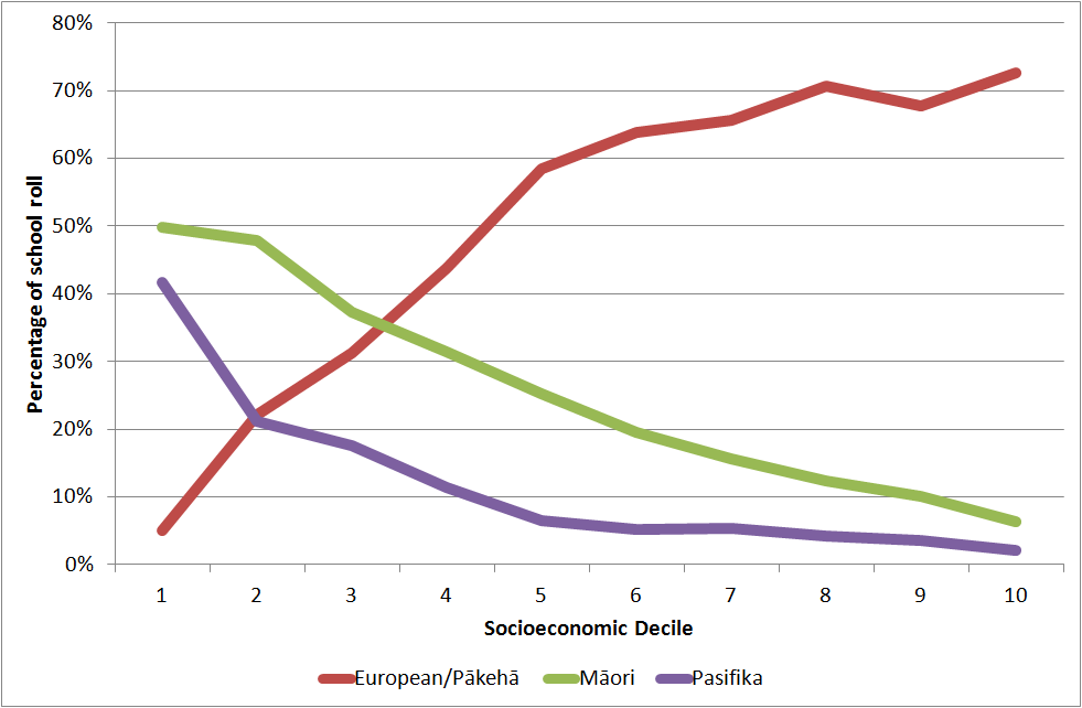 A graph showing the proportion of New Zealand school rolls made up by three ethnic groups in 2011, sorted by socio-economic decile. Data from the New Zealand Ministry of Education's "Education Counts" website